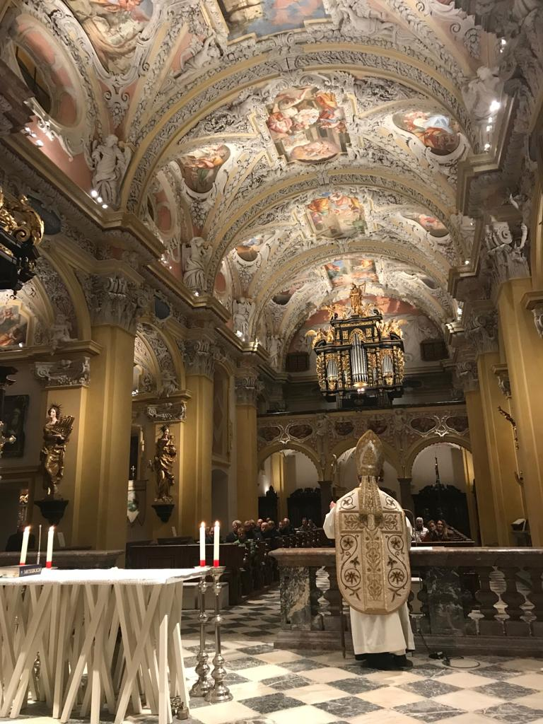 Sanctuary Frauenberg an der Enns (Austria)